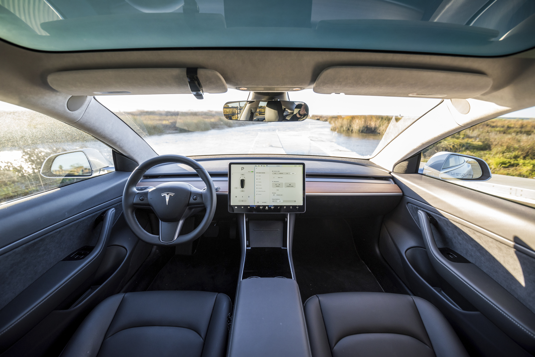 Tesla Model 3